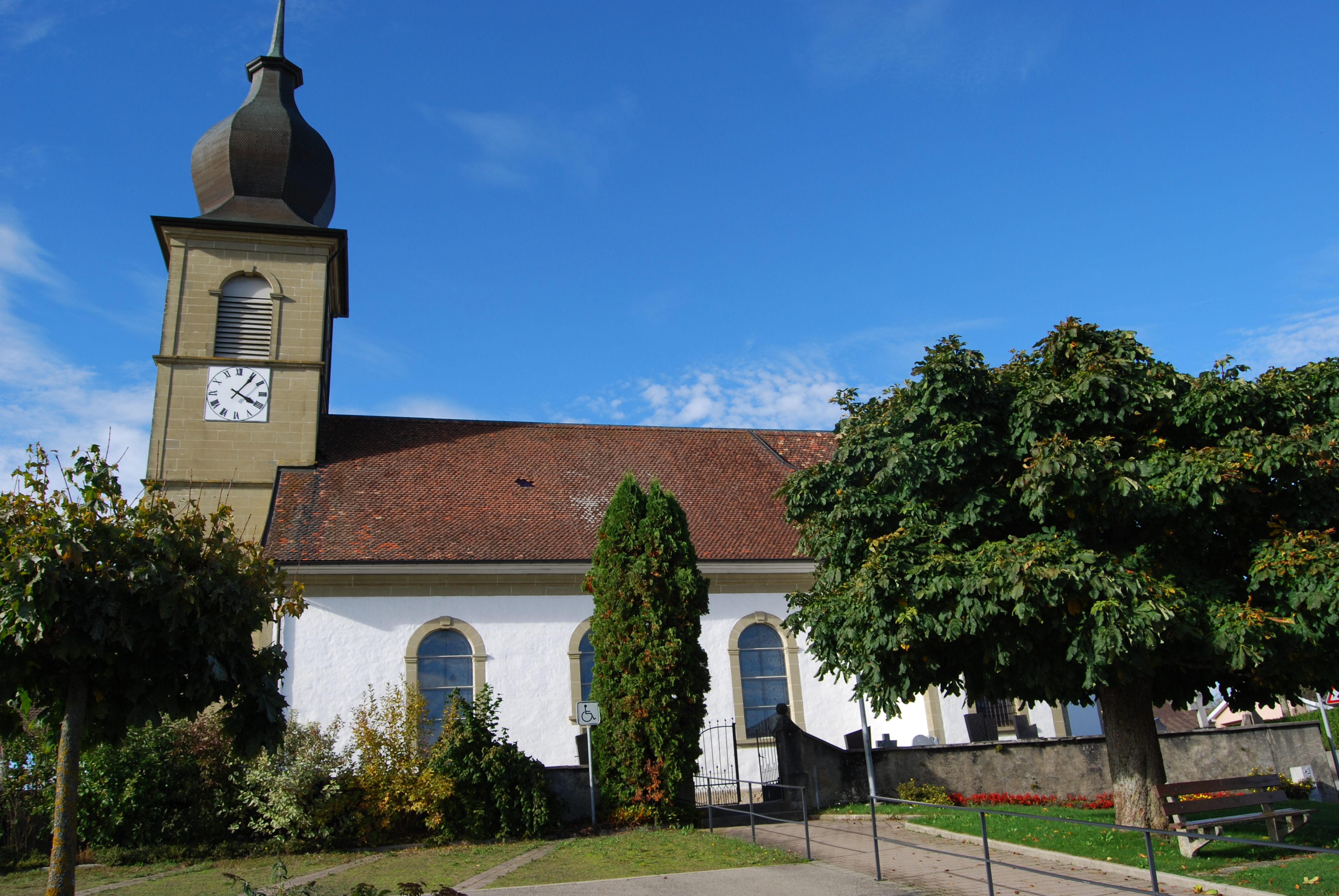 Catholic Church of Lentigny, municipality of La Brillaz, canton of Fribourg, Switzerland